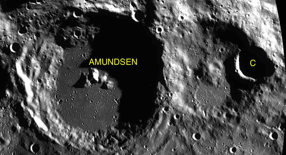 Part of the chart LAC-144 used for the presentation